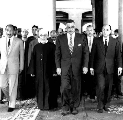 Egyptian government officials inside al-Azhar Mosque before prayers on the last Friday of Ramadan. At the front, from left right: Speaker of the National Assembly Anwar Sadat, Grand Imam of al-Azhar Hassan Maamoun, President Gamal Abdel Nasser, Vice President Hussein el-Shafei and Interior Minister Zakaria Mohieddin.